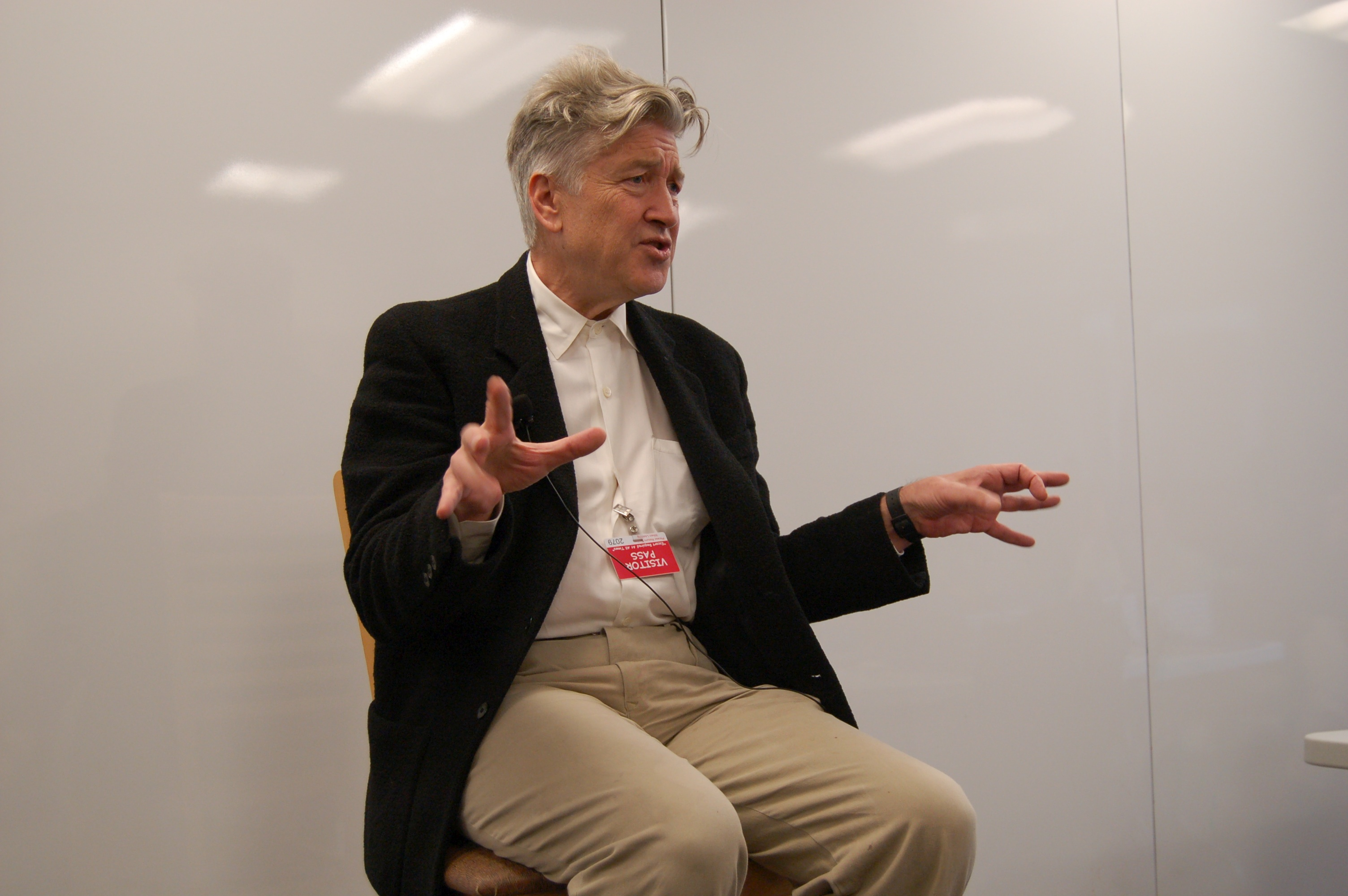 "The artist doesn't have to suffer in order to show suffering."